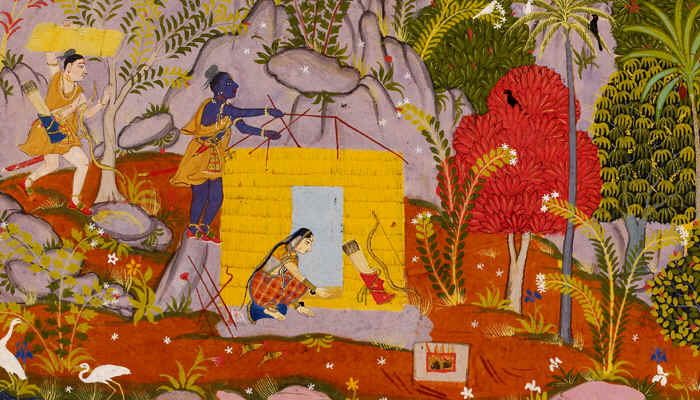 For the first time nearly 120 paintings from the British Library’s lavishly illustrated 17th century Ramayana manuscripts are on public display in its summer exhibition: The Ramayana: Love and Valour in India’s Great Epic, 16 May – 14 September 2008. The Mewar Ramayana manuscripts were produced between 1649 and 1653 for Rana Jagat Singh of Mewar in his court studio at Udaipur . Illustrated on the grandest scale, with over 400 paintings. Two volumes have been identified as being painted by the studio master Sahib Din, a Muslim painter who spent his life painting Hindu legends like Ramayana and Geet Govinda. The exhibition curator Jerry Losty explains the significance of this Mewar Ramayana.